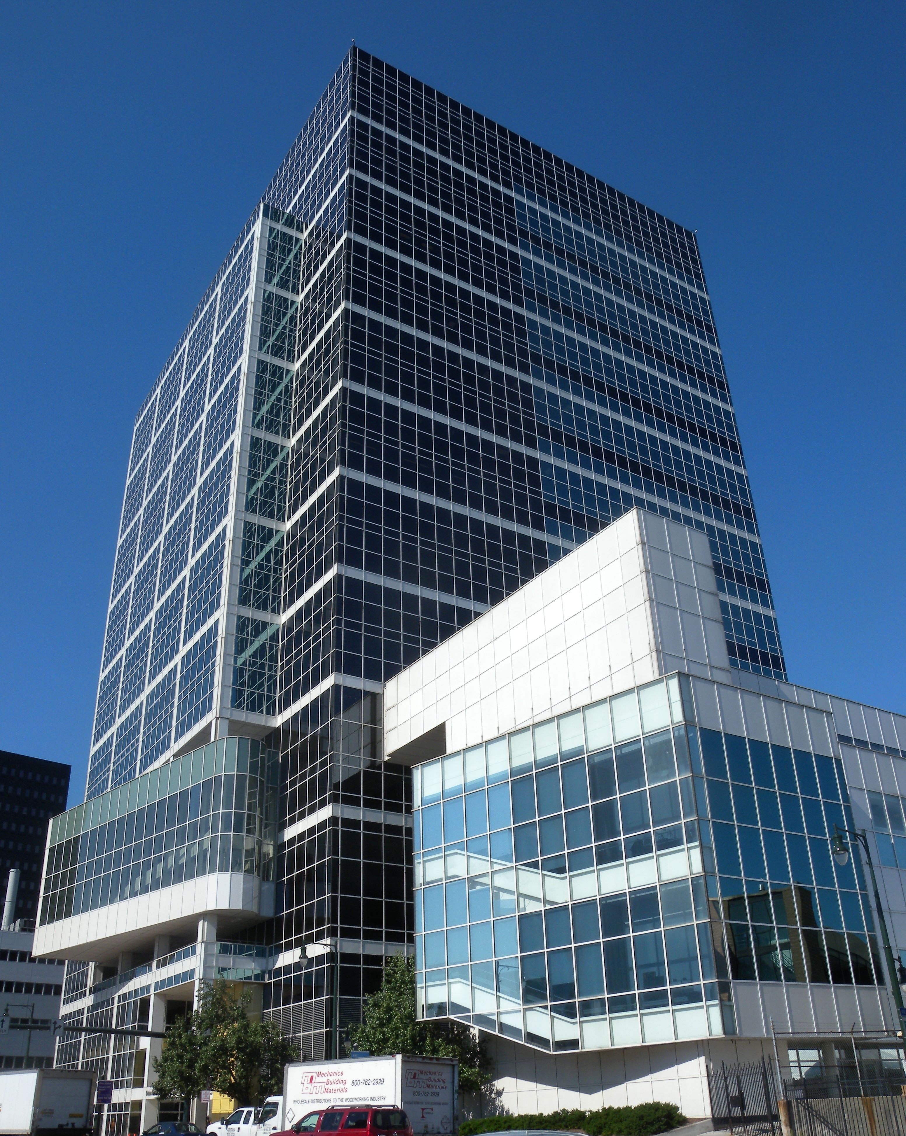 Looking southwest at Seton Law on a sunny morning before meeting my Eagle Rock group ride.